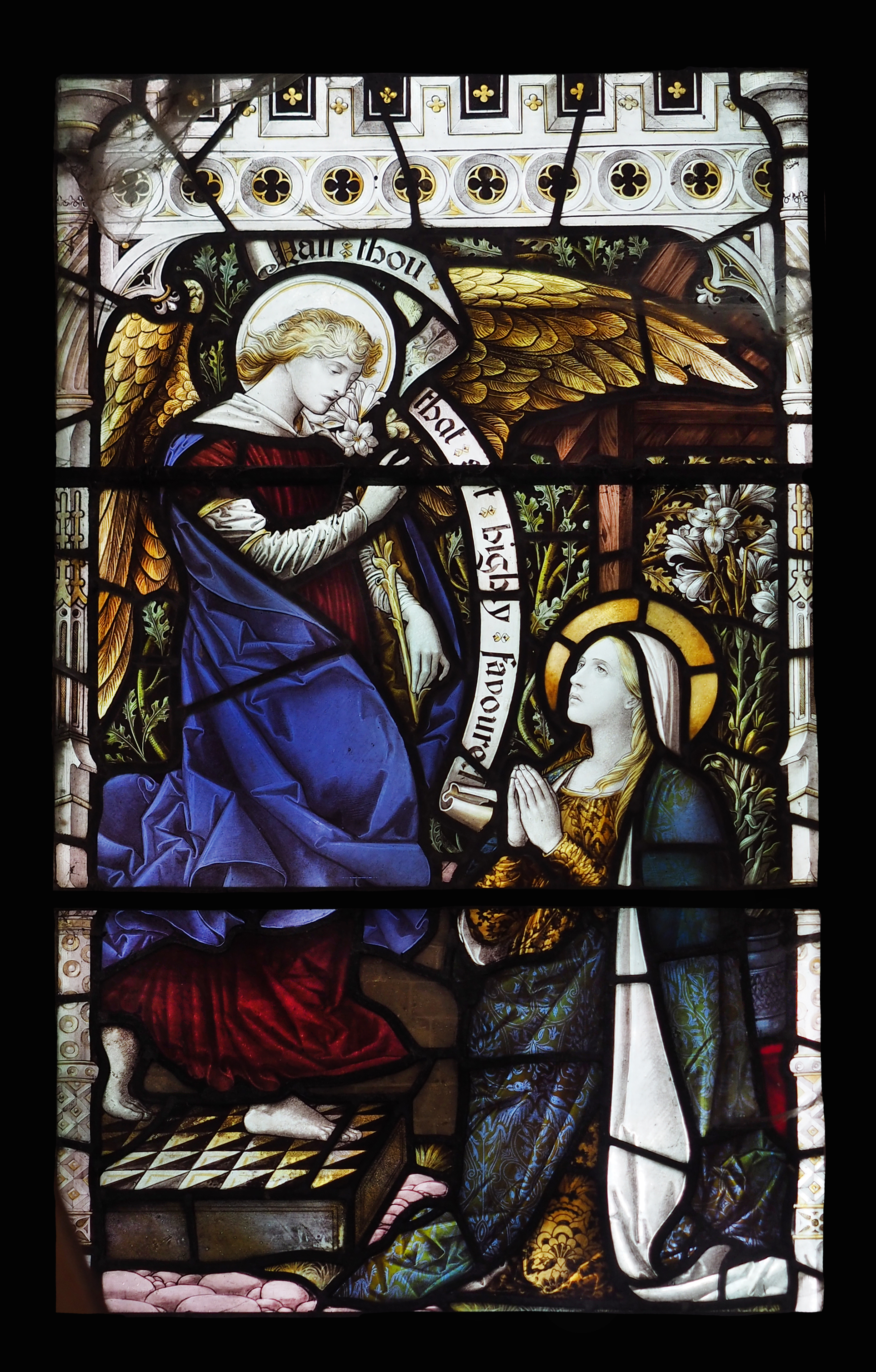 A stained glass panel of the west window of St George's parish church, Edworth, Bedfordshire